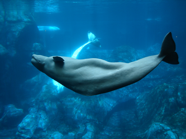 Photo by Angela Grider. Beluga whale at the Georgia Aquarium.